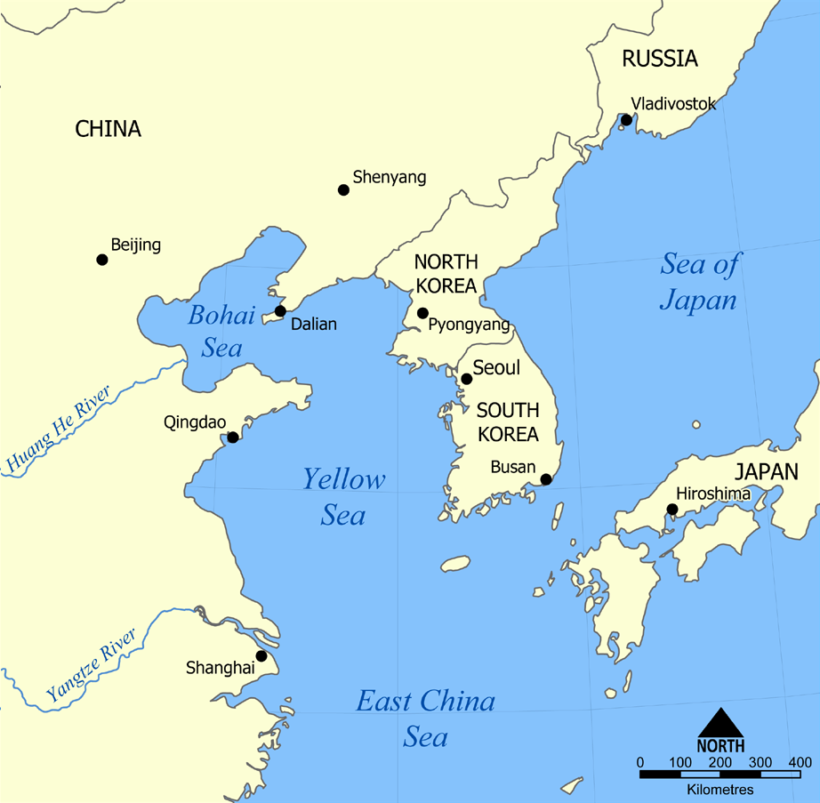 This maps shows the location of the Bohai Sea (also commonly written as Bo Hai), a gulf of the Yellow Sea. For a more detailed map of the same area see Image:Bohaiseamap2.png. Created by NormanEinstein, December 1, 2005.